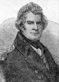 John Ross, Arctic explorer. Engraving from Finding the North Pole by Cook and Peary by Morris Charles, published in 1909. His father was Daniel Ross who was a Scottish immigrant. His mother was a quarter Cherokee.